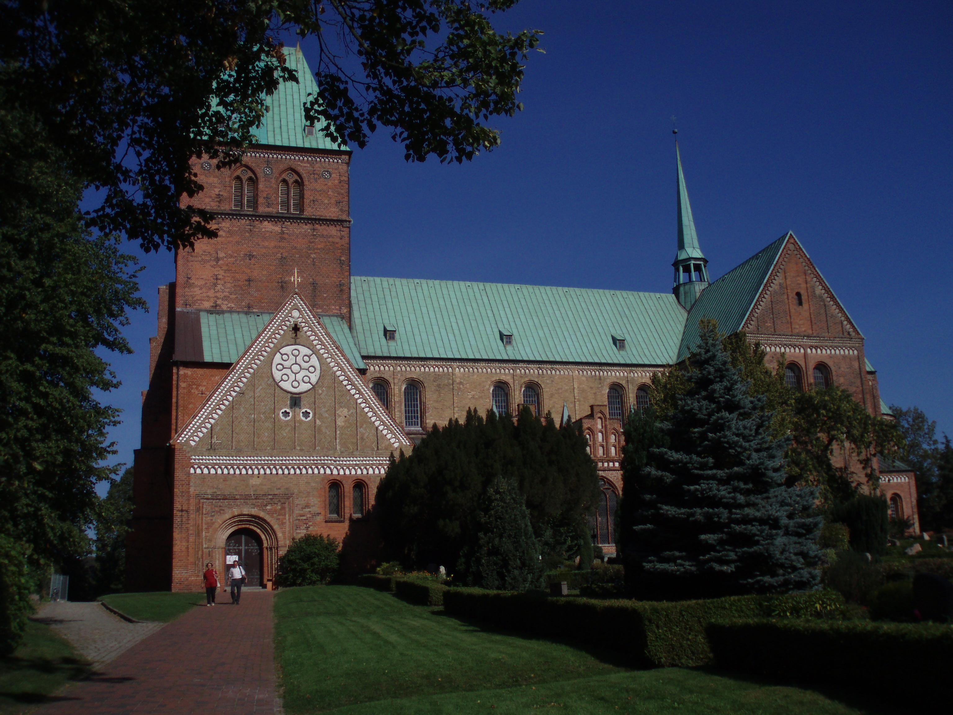 Ratzeburg romanesque Cathedral. Schleswig-Holstein The south West gable has an opus spicatum much decorated pediment